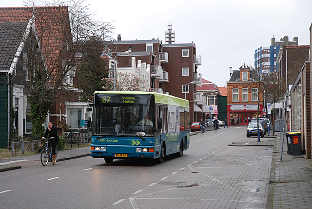 Berkhof Junior bus (#6405) with probably MAN 14.220 chassis in Zaandam, Netherlands.